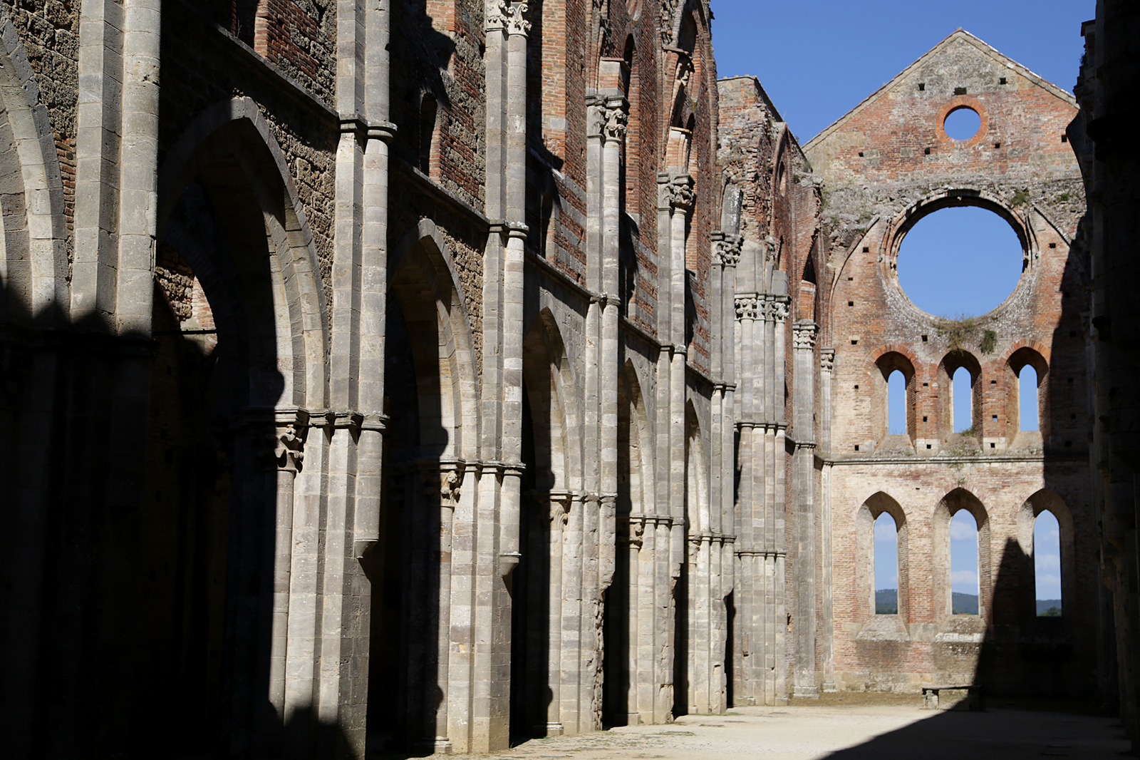 San Galgano abbey (Siena), Italy.